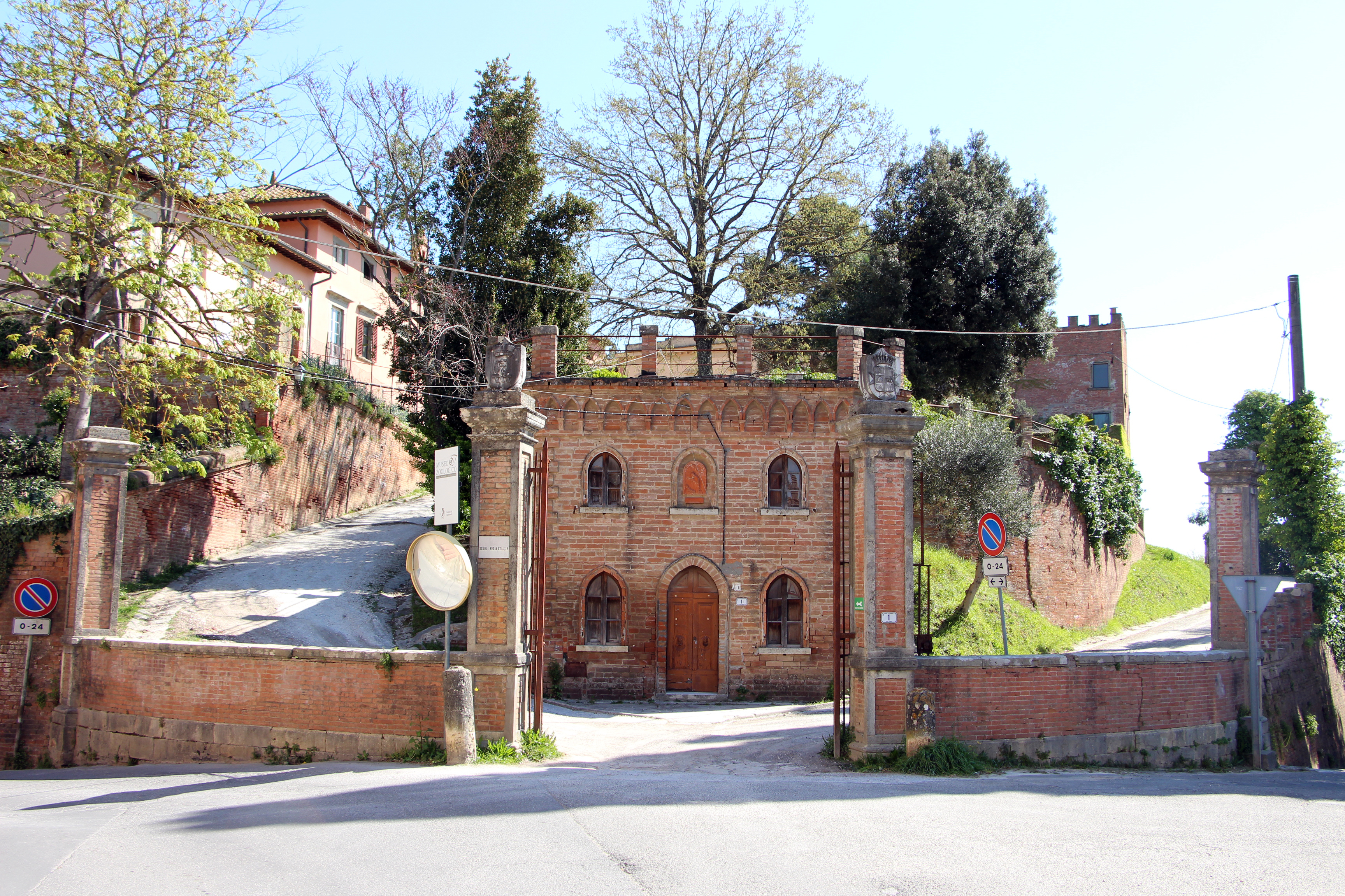 Villa Baciocchi (Capannoli)